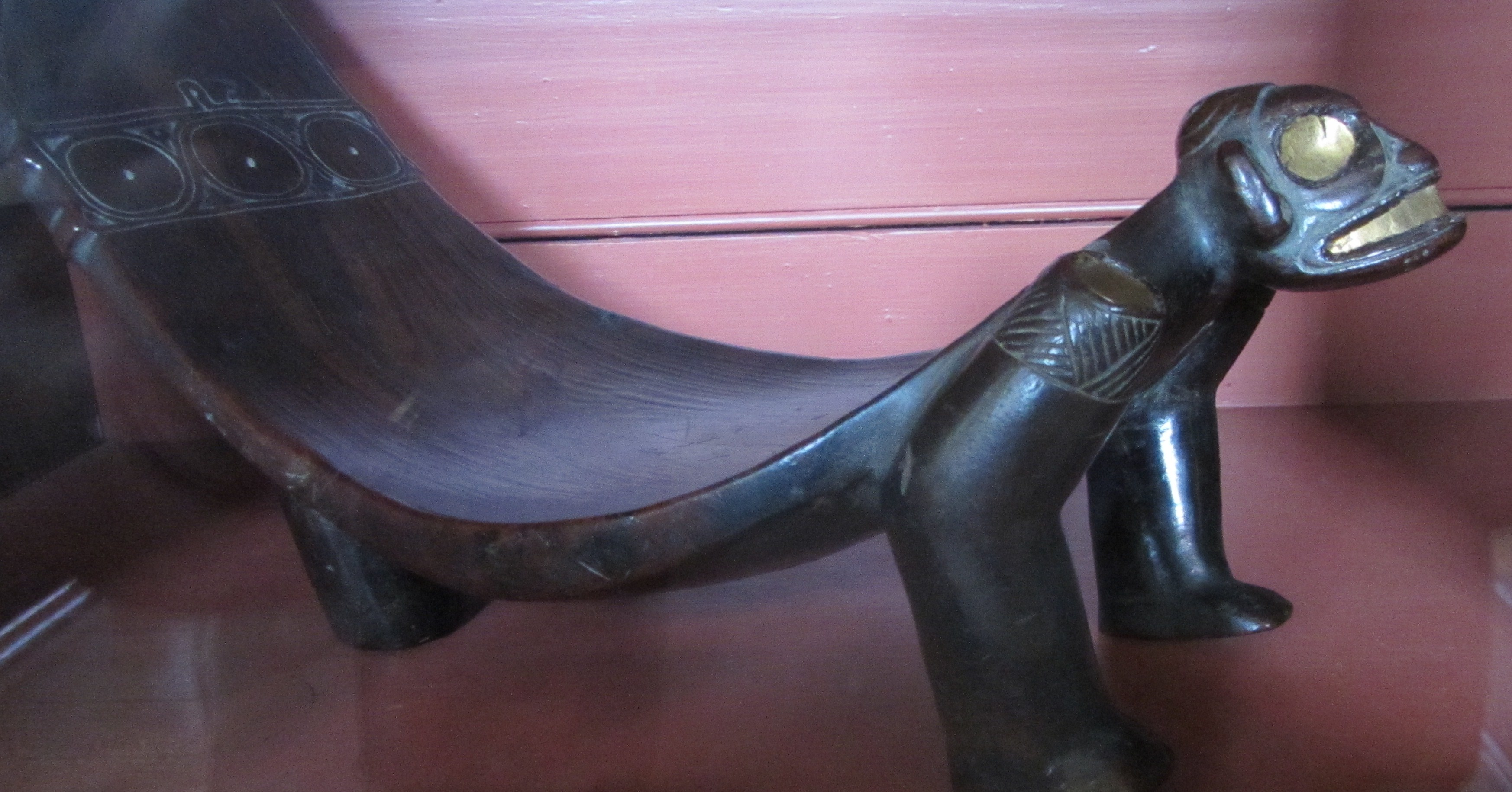 Taino ritual seat called Duho (wooden four-legged stool carved in anthropomorphic form and inlaid with gold). Santo Domingo, Caribbean, 13th - 15th century AD. British Museum (Am1949,22.118).